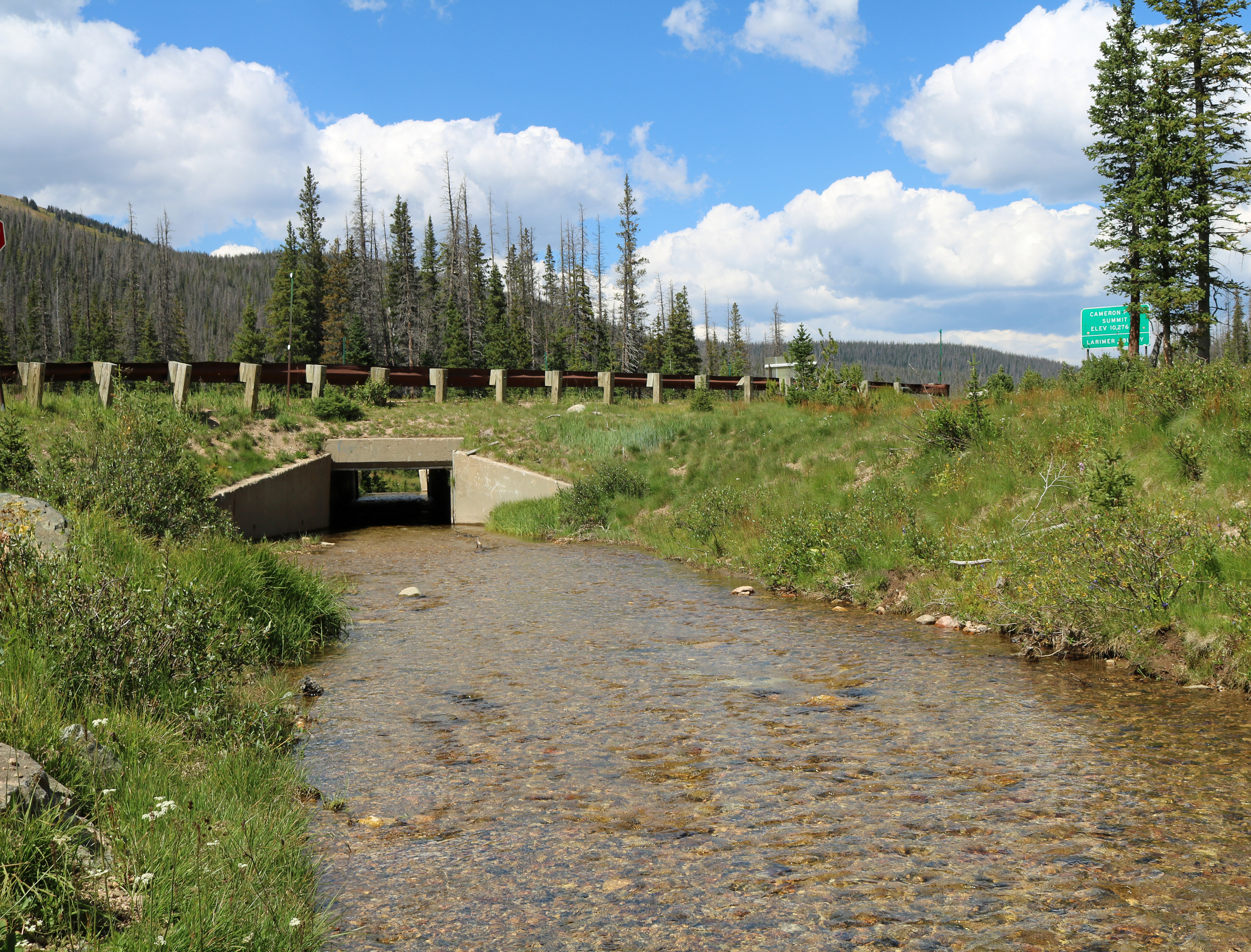 Michigan Ditch flowing across Cameron Pass on the border between Jackson and Larimer counties, Colorado. The ditch takes water from the Michigan River, which is part of the North Platte River watershed. It conveys this water across Cameron Pass and delivers it to the headwaters of Joe Wright Creek, which flows into the Cache la Poudre River, which is part of the South Platte River watershed. This is an example of a interbasin transfer or transbasin diversion or trans-montane diversion.